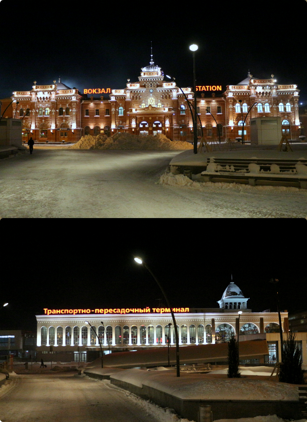 Railway station "Kazan-1"/